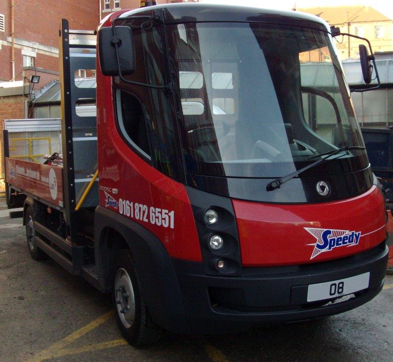 A Speedy Hire Modec van in Manchester